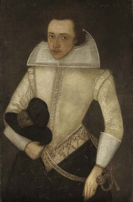 Portrait of a a young gentleman, aged 22, said to be Anthony Babington.